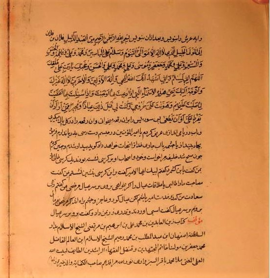 Islamic Manuscript-Ghanymuh al-Qubur fy Eamal al-Shshhwr- Zain Al Abdeen Shahshahani-1900-1318 A.H- غنیمه القبور فی عمل الشّهور The Islamic Heritage Revival Centre (Qom) Registered Number: 2771